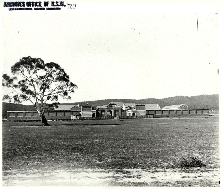 Title: Goulburn Gaol Dated: No date Digital ID: 4481_a026_000667 Rights: We'd love to hear from you if you use our photos/documents. Many other photos in our collection are available to view and browse on our website using Photo Investigator.